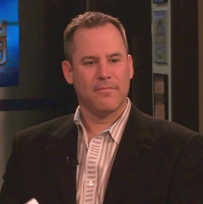 Photo of author Vince Flynn taken by Phil Konstantin in San Diego on October 31, 2008.